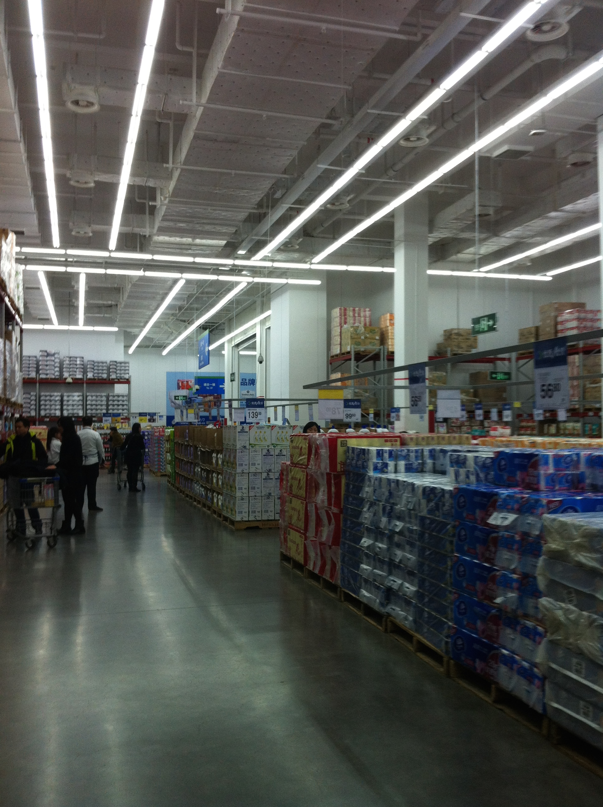 Sam's Club in Suzhou中文（中国大陆）: 山姆会员商店（苏州店）的货架